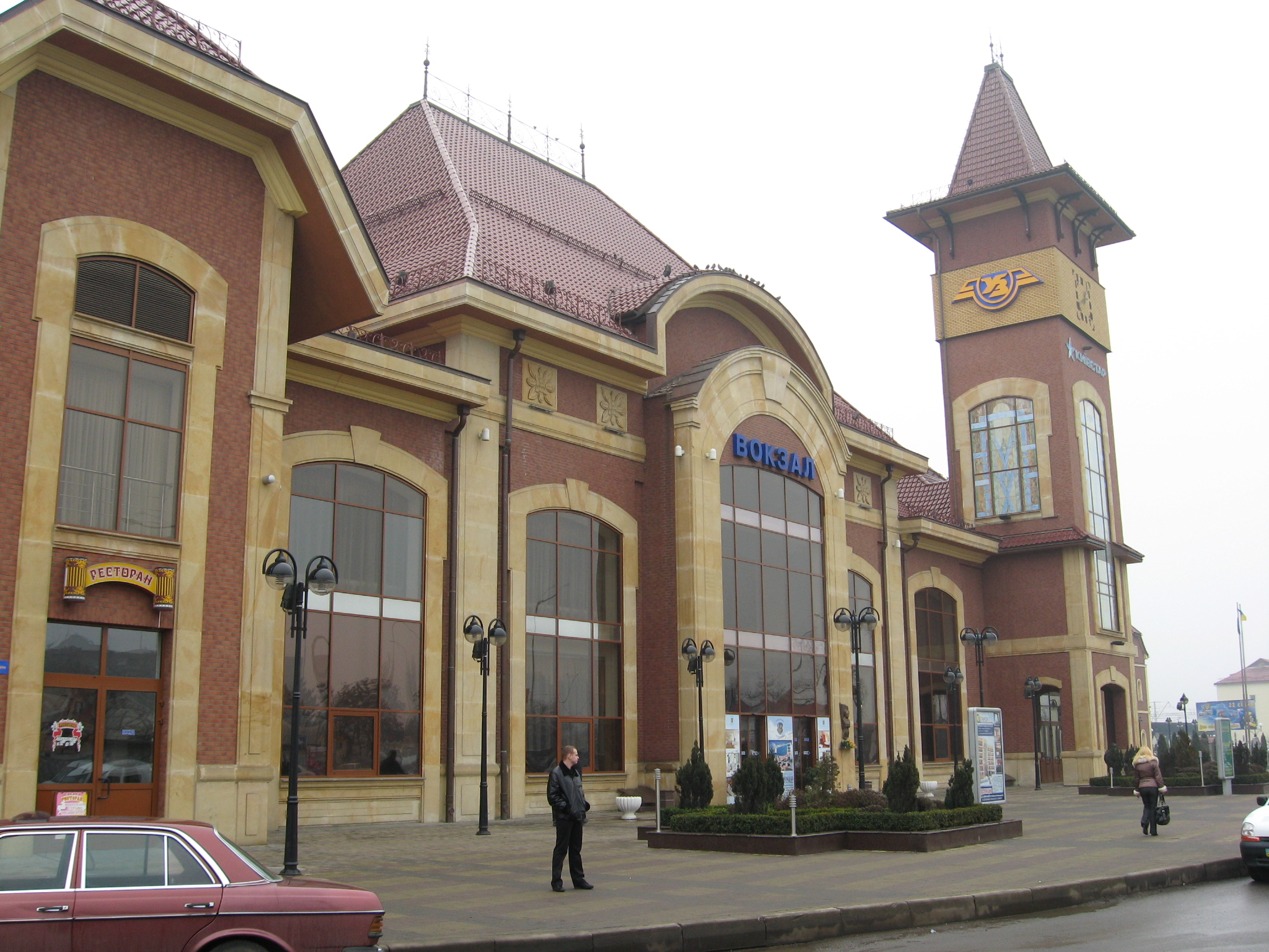 Uzhhorod Central Rail Terminal